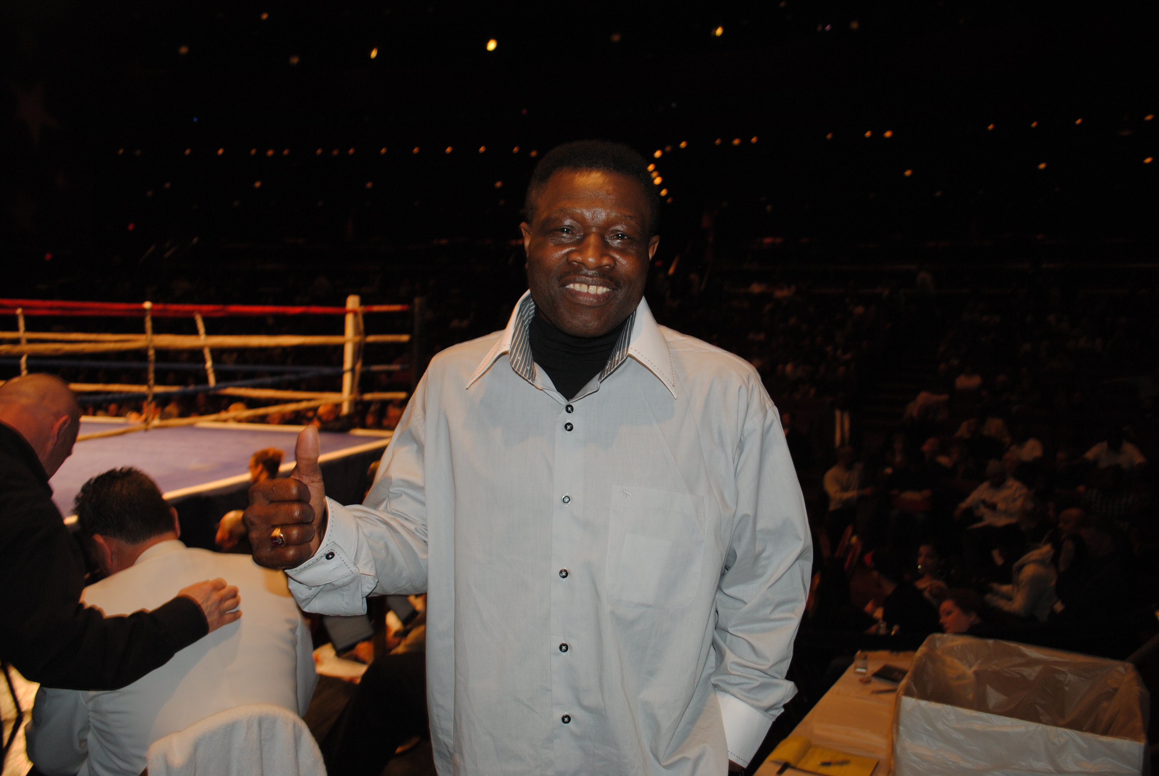 Sports writer Robert Brizel captures former world junior middleweight champion Buster Drayton ringside at a fight card at the Tropicana Casino & Resort, February 4, 2012.